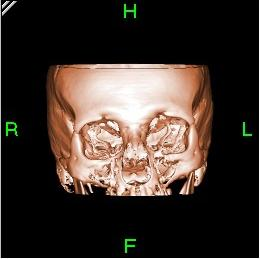 Bone reconstructed in 3D.